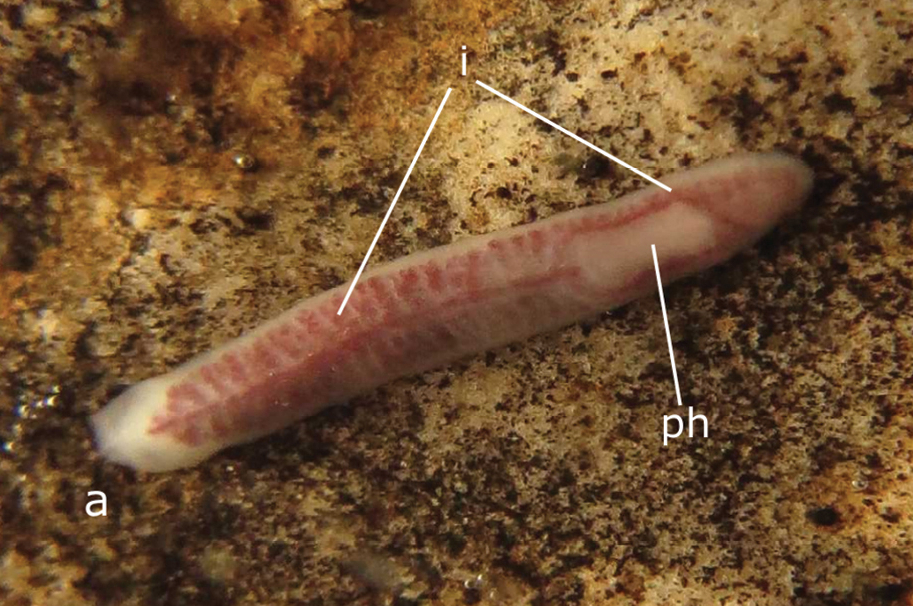 Hausera hauseri live specimen in dorsal view photograph. The intestine contains food and the pharynx is visible.